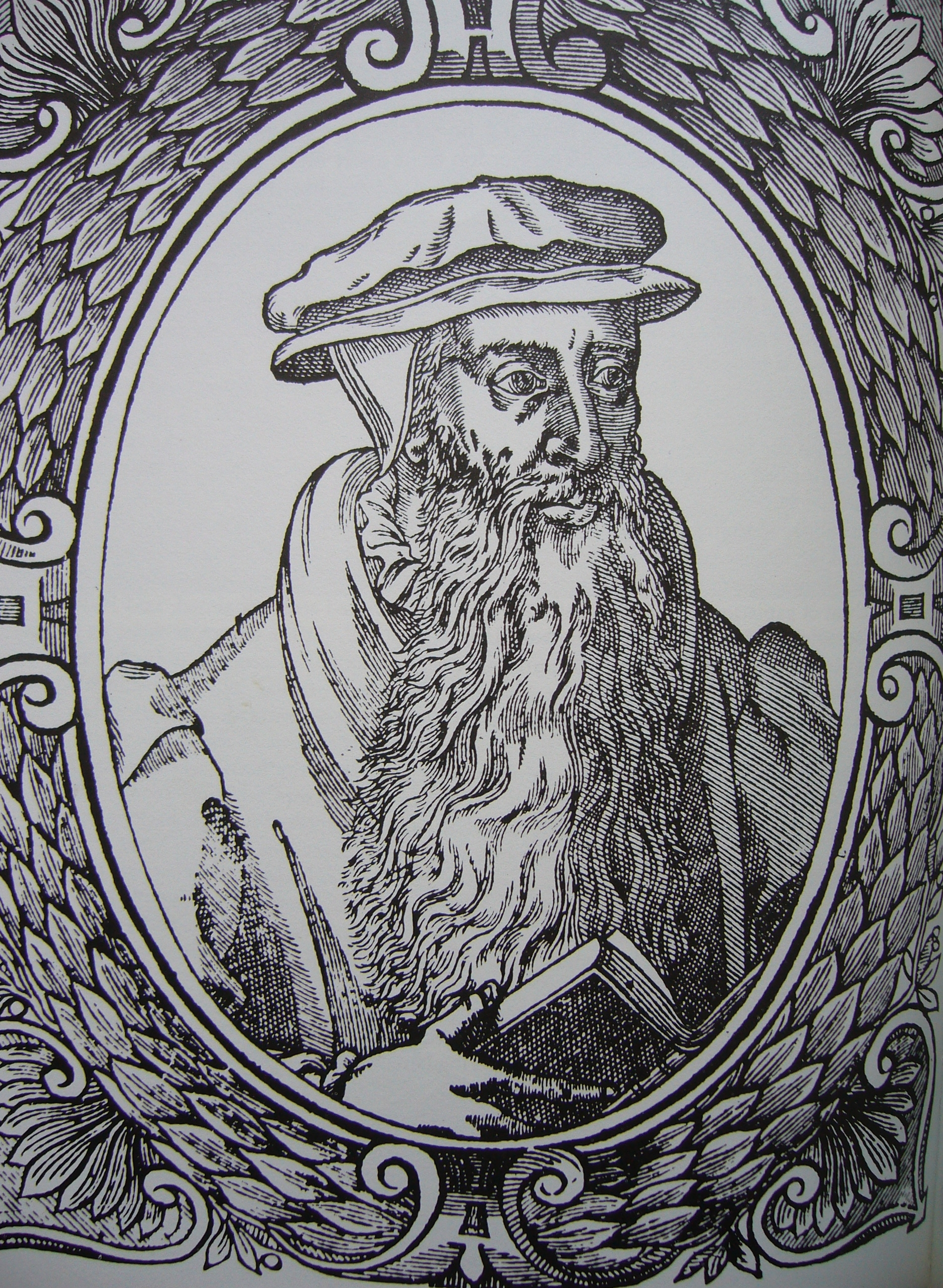 There is something symbolic in the first appearance on the page of history of the leading figures of the Reformation. Calvin first appears at his writing-desk, already writing a learned tome at the age of 23. Cranmer is first seen burrowing in the Bible to find scriptural texts to justify his king in divorcing his wife and marrying his mistress. Luther's first appearance was more vigorous, nailing his theses to the door of the church in Wittenberg, striking at the old Church with every blow of the hammer. But Knox is the only one who enters carrying a two-handed sword. -- J Ridley, John Knox, 1968